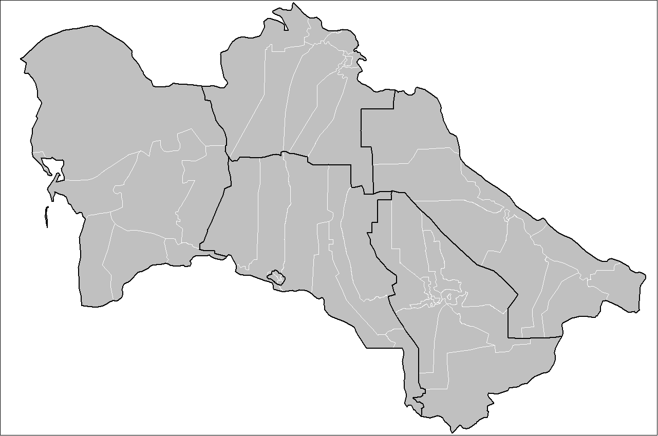 Map of the districts of Turkmenistan. Created by Rarelibra 21:48, 30 May 2007 (UTC) for public domain use, using MapInfo Professional v8.5 and various mapping resources.